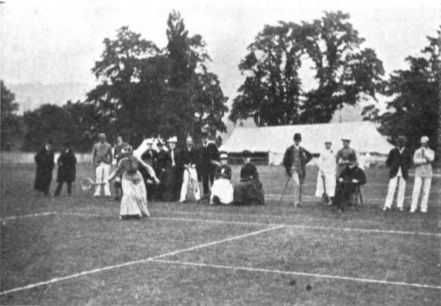 Irish tennis player Louisa "Mollie" Martin (1865-1941), playing at a tournament at Bath, Somerset, UK in 1885.